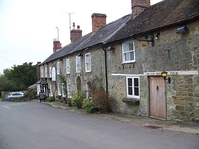 The White Lion, Bourton The inn was built in 1726.